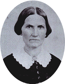 Margaret Taylor, allegedly. However, there is a good chance that this is not actually a photo of Margaret Taylor; this book says she refused to sit for a portrait or even a photograph. This is however an etching that is said to be her and that resembles this photo; someone should try to track this down, as is not clearly a reliable source. Note that, if this daguerreotype 1) is authentic and 2) was taken in 1845, as claimed, the photography session would have occured about four years before Zachary Taylor's ascent to the presidency, while General Taylor was still the commander of the US Army's southern division.